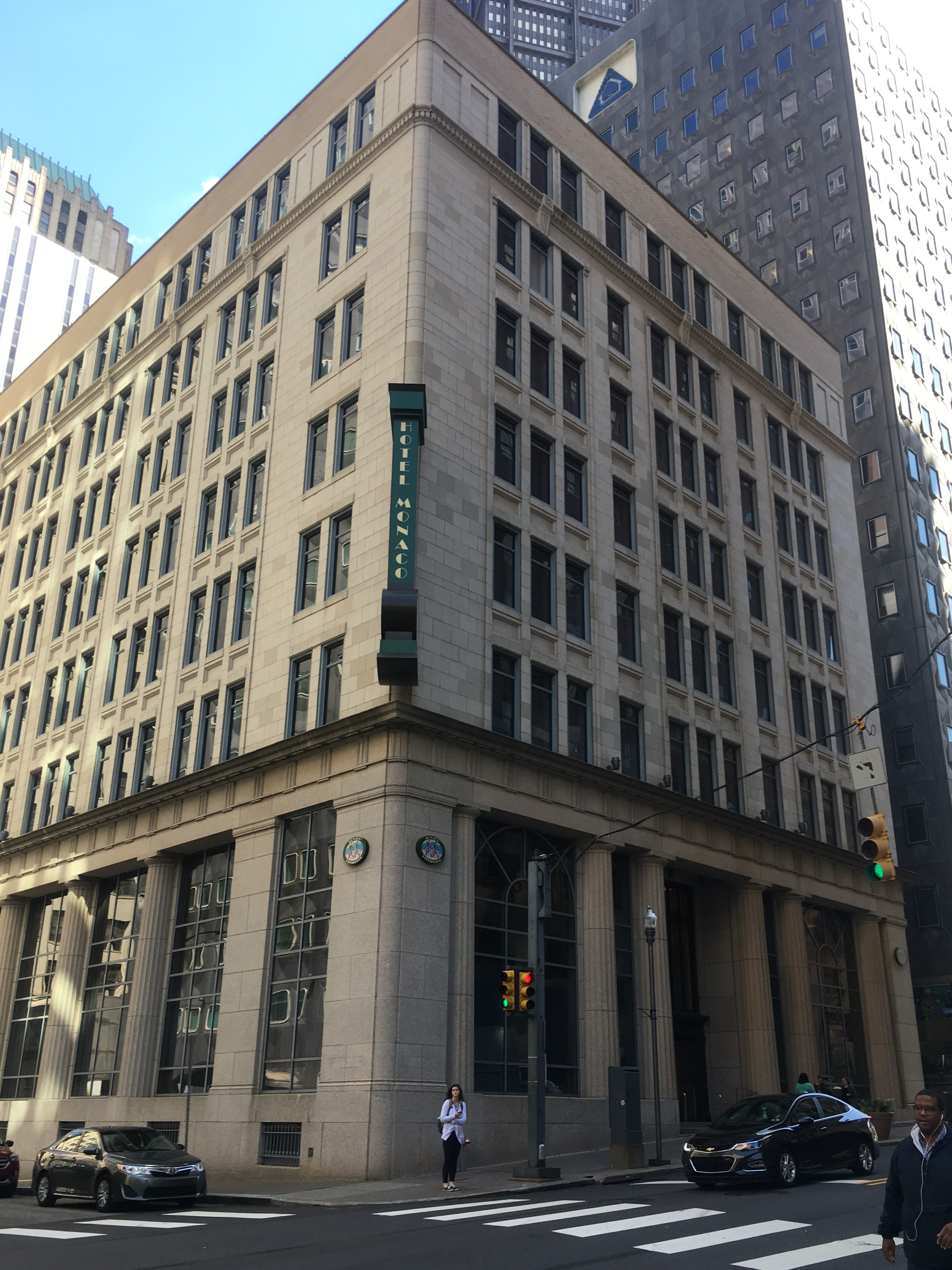 The James Reed Building, home to Hotel Monaco, on 6th Avenue in Pittsburgh, Pennsyvania